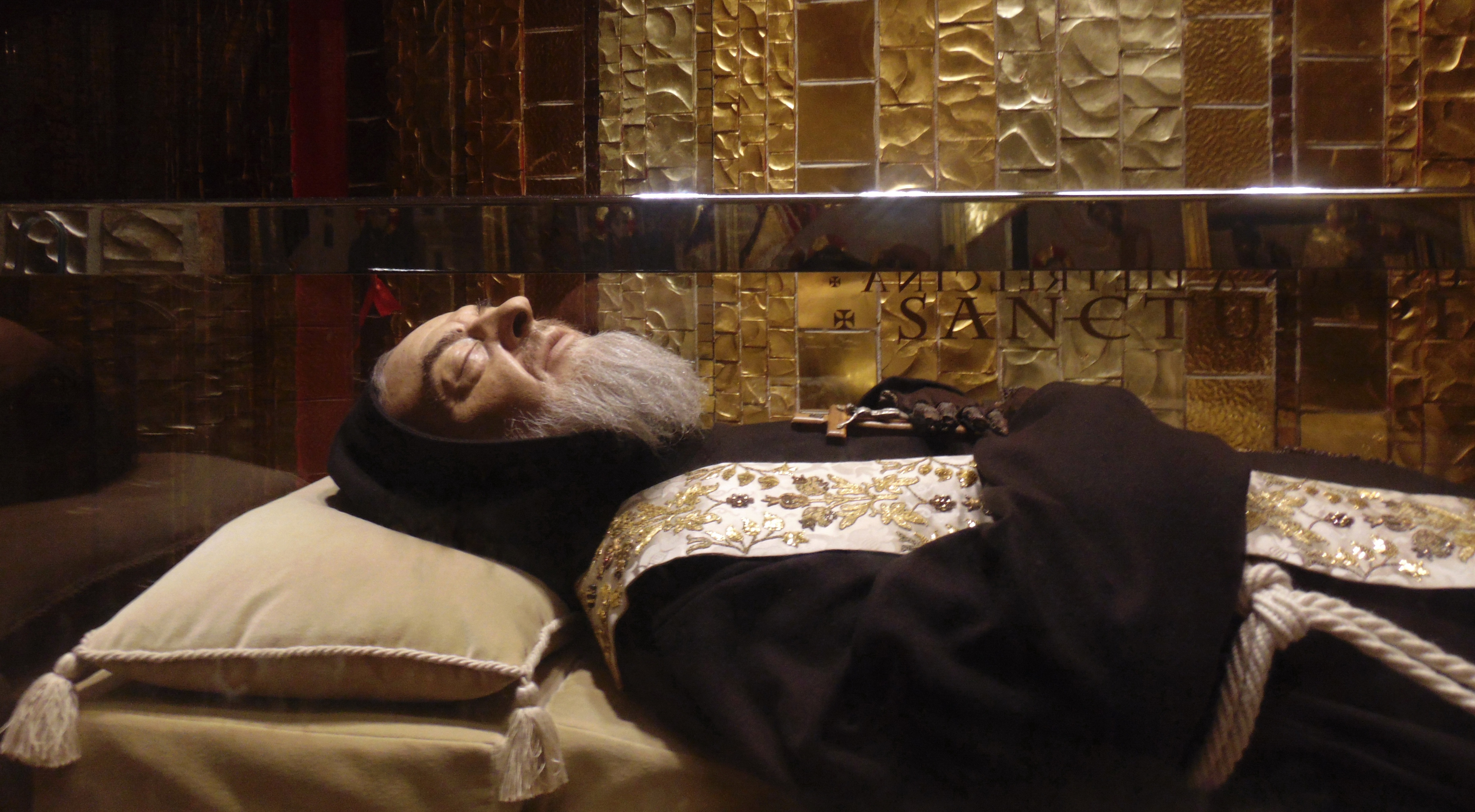 St. Pio incorrupt body